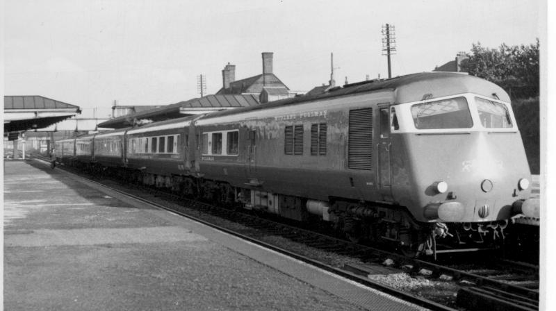 Photograph taken by RuthAS on 28 September 1960 at Cheadle Heath station